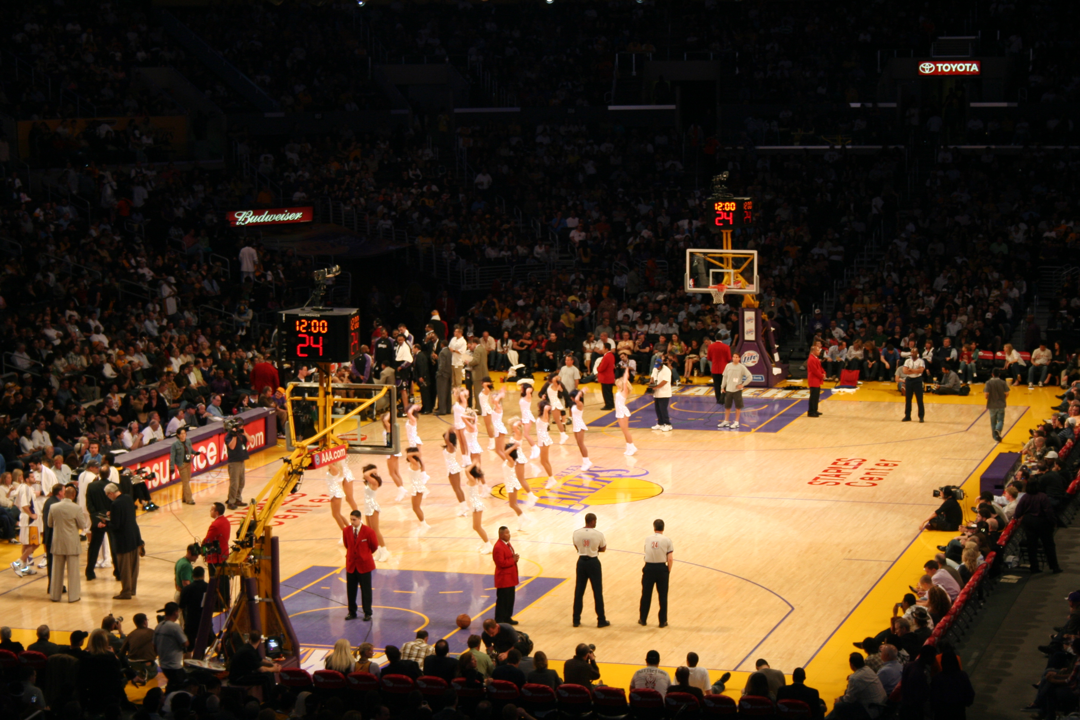 Cheerleaders perform at during a LA Lakers game in Staples Center in Downtown Los Angeles, Ca